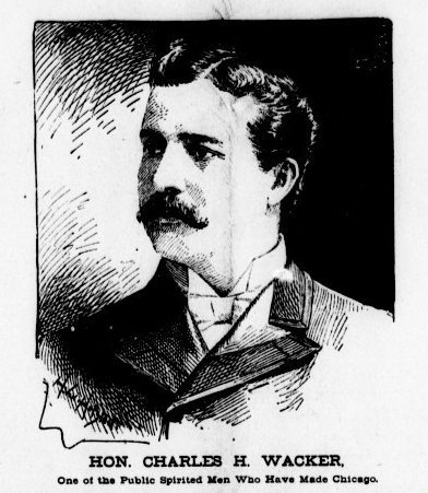 Charles Wacker in the Chicago Eagle, July 18, 1896.